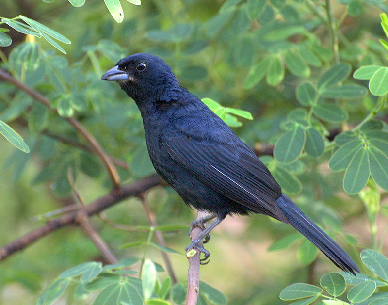 A Ruby-crowned Tanager (Tachyphonus coronatus), male